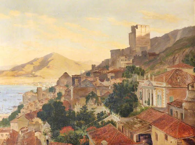 1883 - Frederick William J. Shore Arengos palace - Old picture of Gibraltar altered by Neville Chipulina